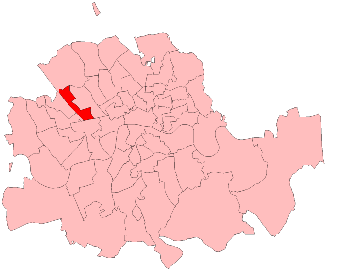 A map of Marylebone West constituency within the Metropolitan Board of Works area, as it existed from 1885 to 1918.